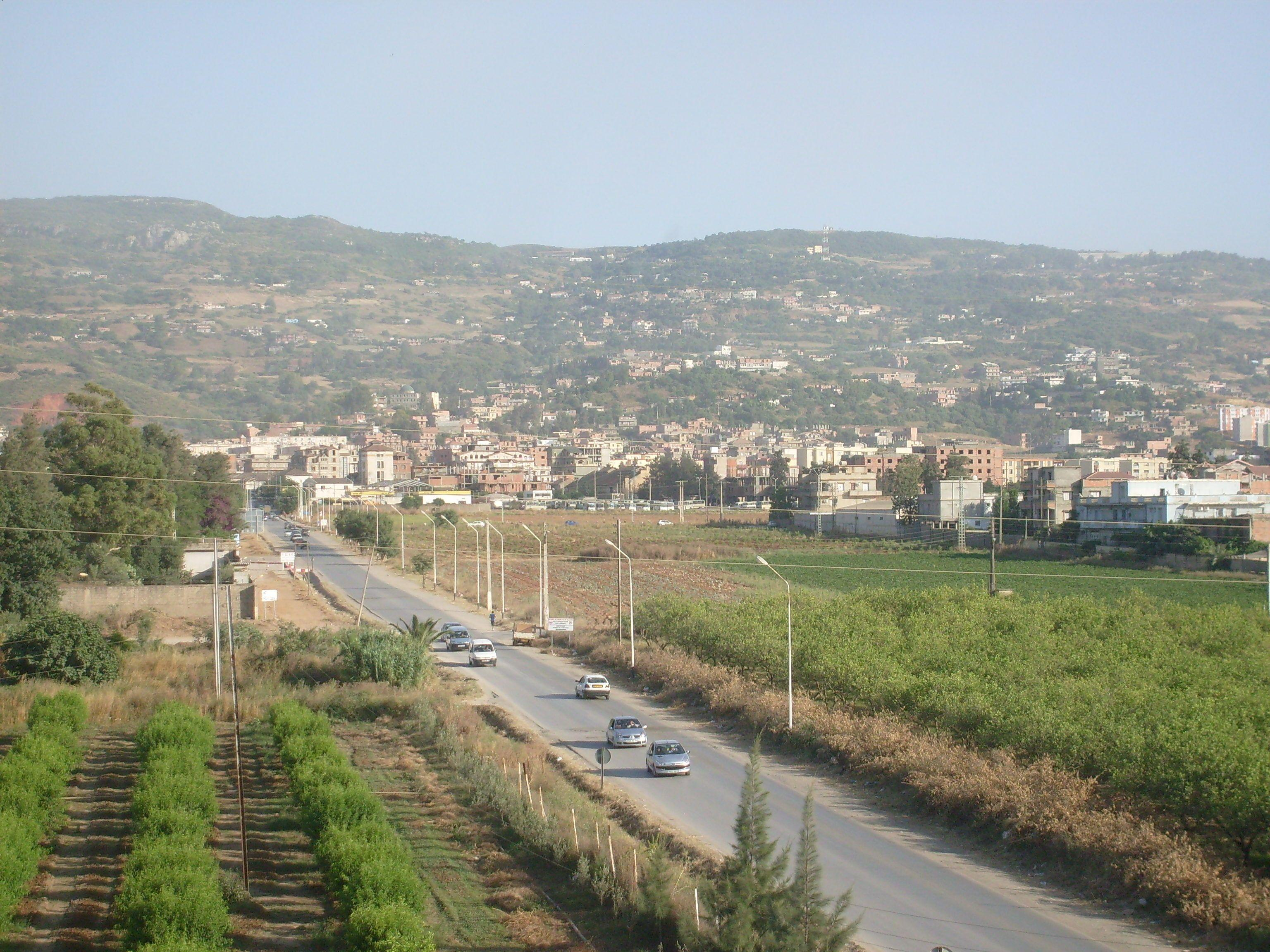 Photography done by me (Clapsus) of the entry of th Algerian village : Meftah